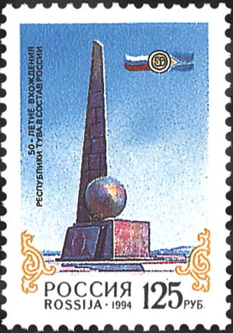 Stamps of Russia. The 50th anniversary of joining Russia by the Republic of Tyva.